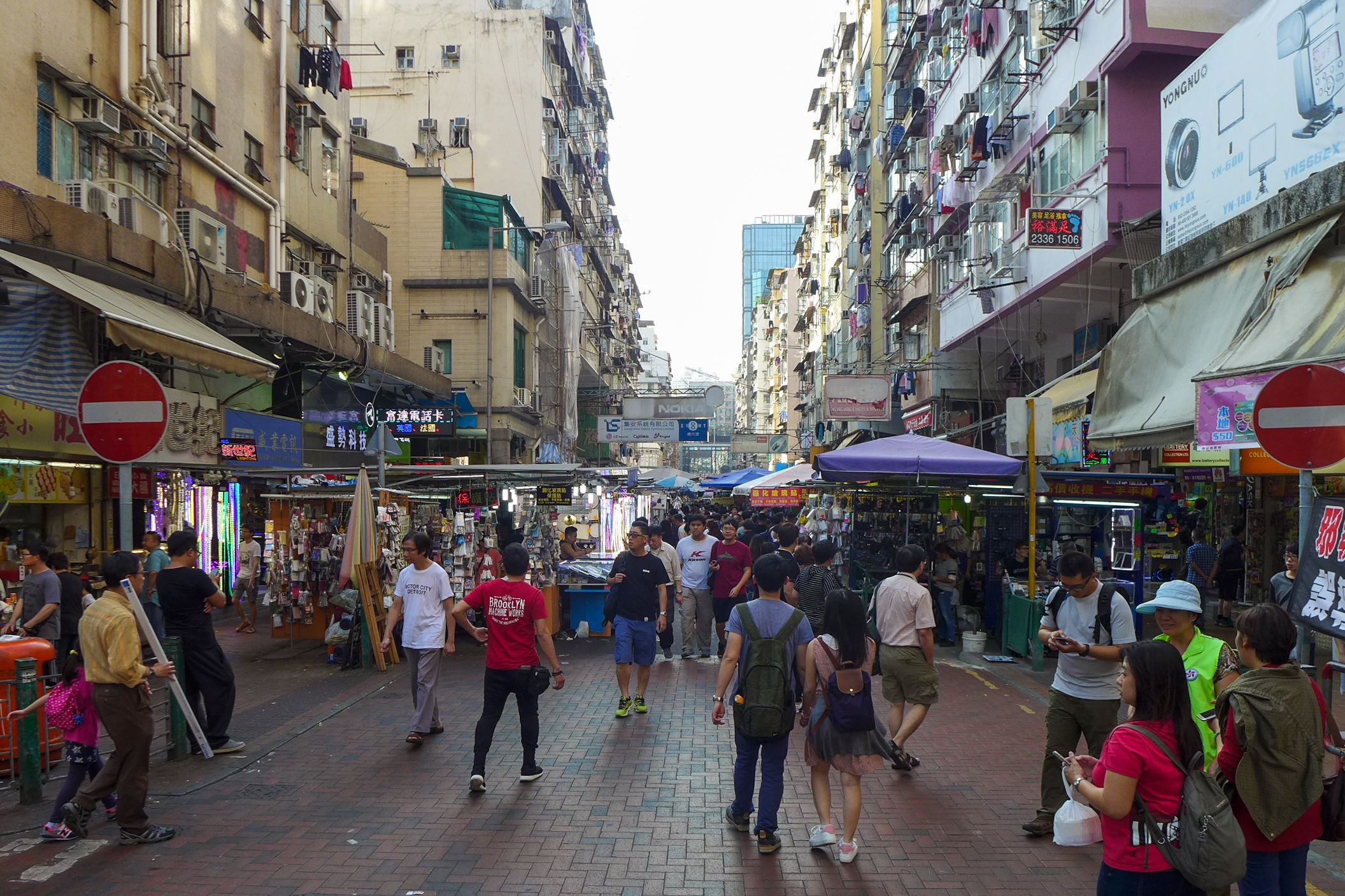 Sham Shui Po Apliu Street